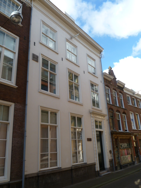 The Hague (the Netherlands), Raamstraat 45 former Jewish orphanage (1880-1932)